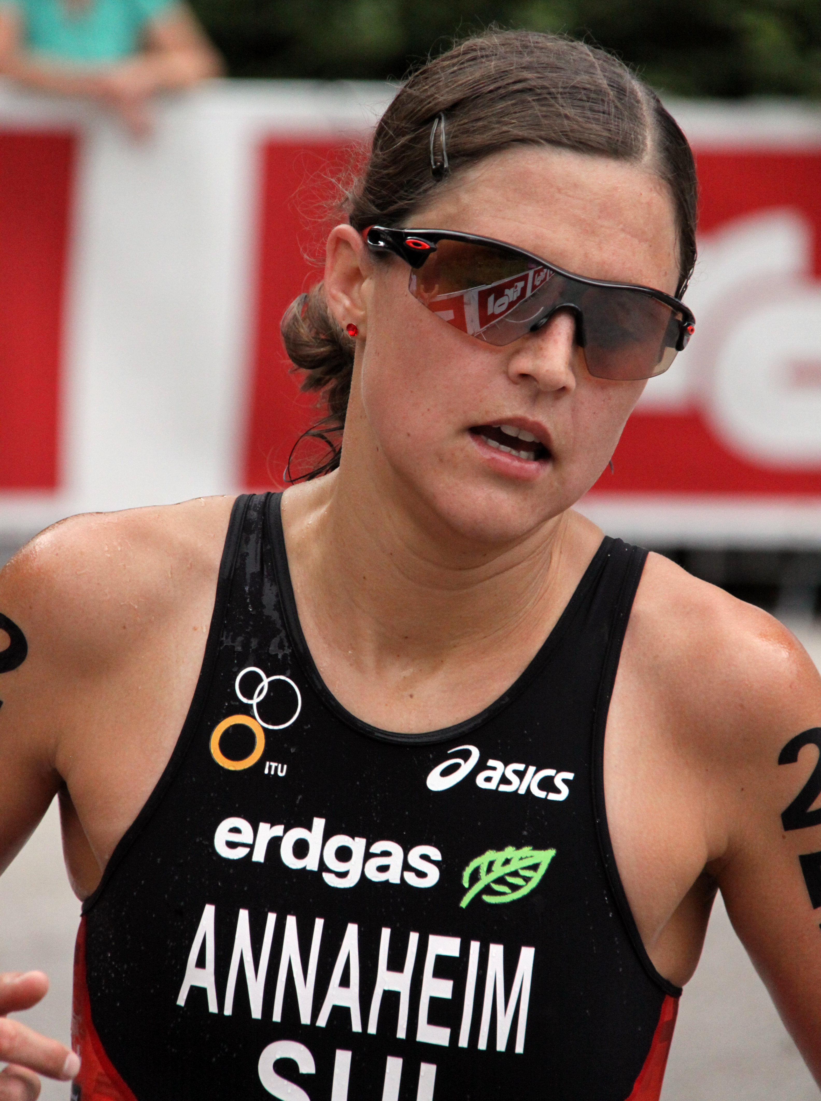 Melanie Annaheim at the World Championship Series Triathlon in Kitzbuhel, 2010.